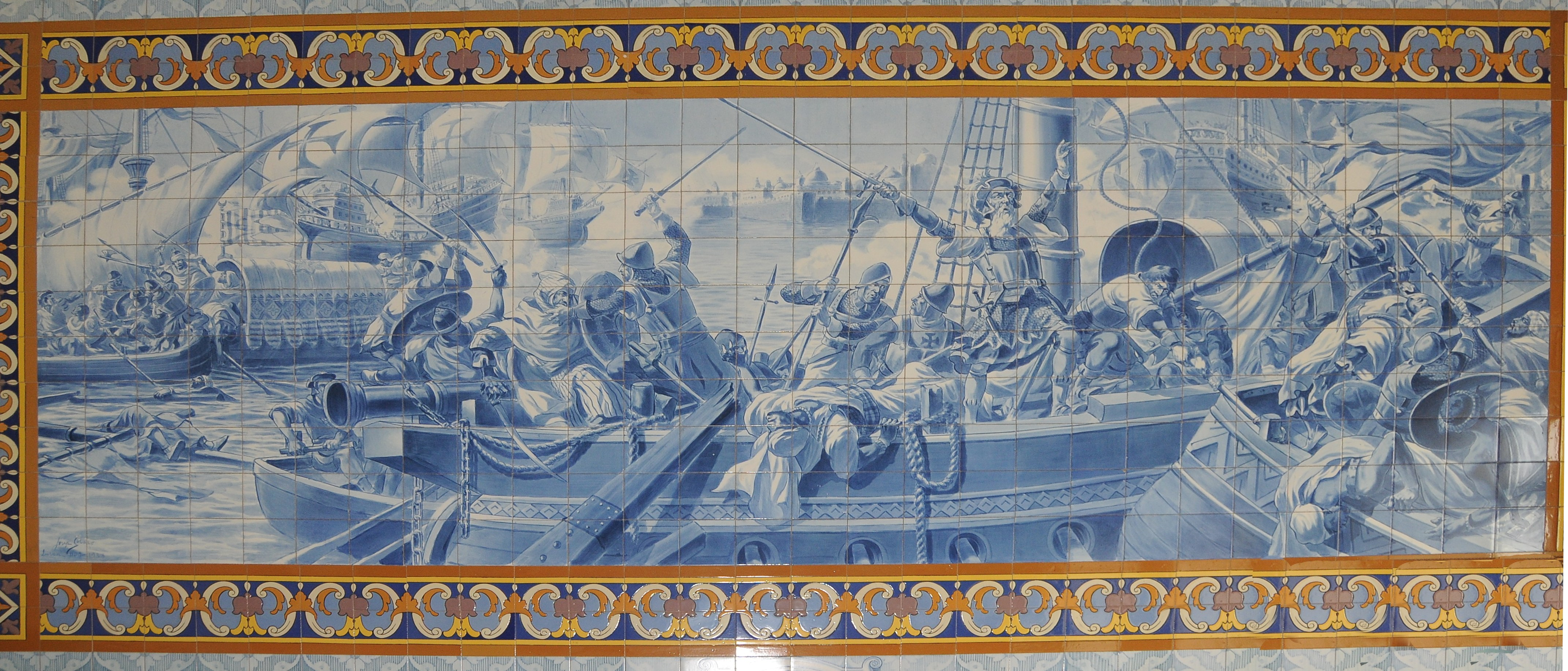 Azulejos of Afonso de Albuquerque, in Centro Cultural Rodrigues de Faria, Forjães, Esposende, Portugal, from Jorge Colaço